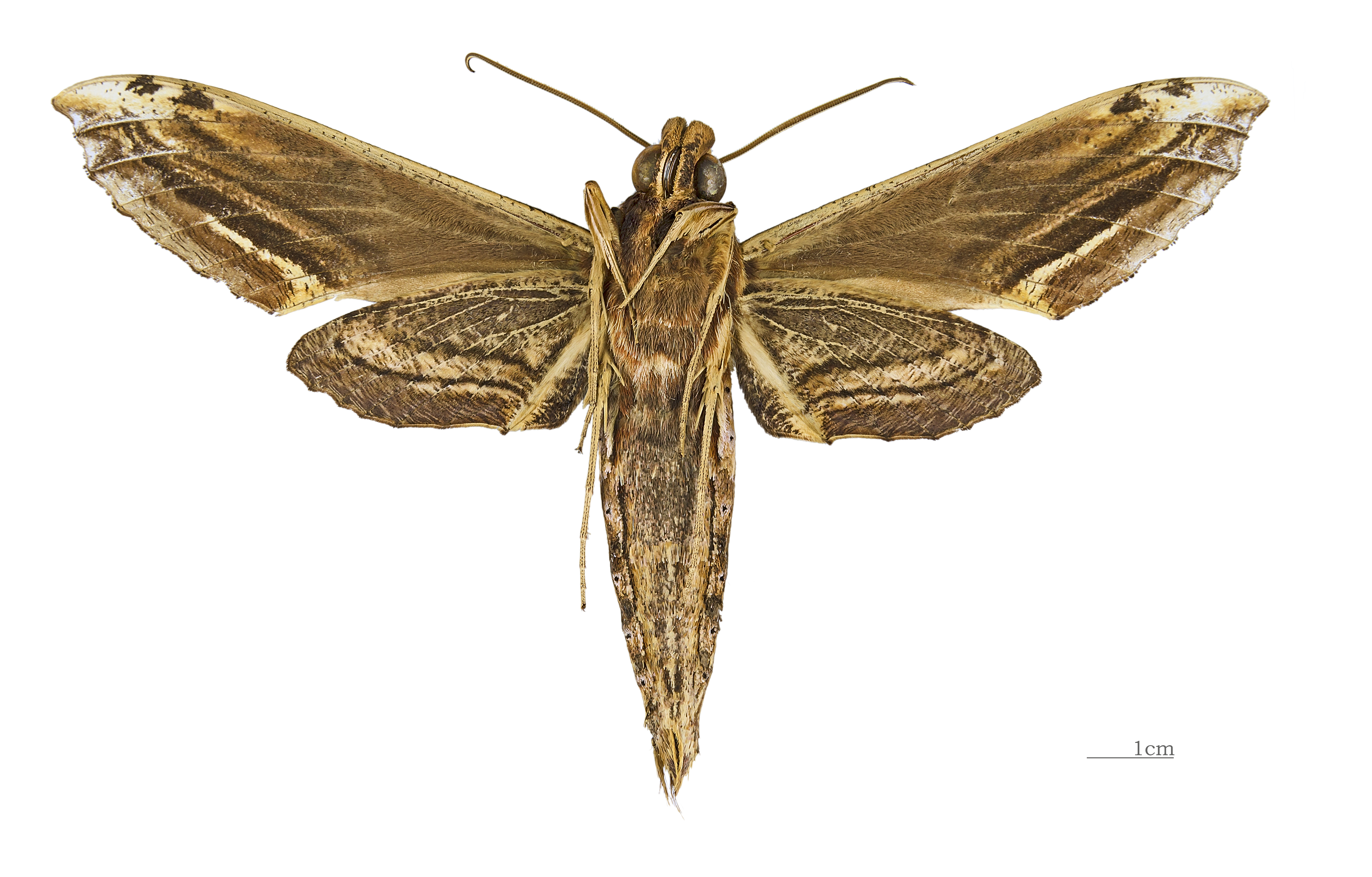 Xylophanes guianensis - △ Ventral side